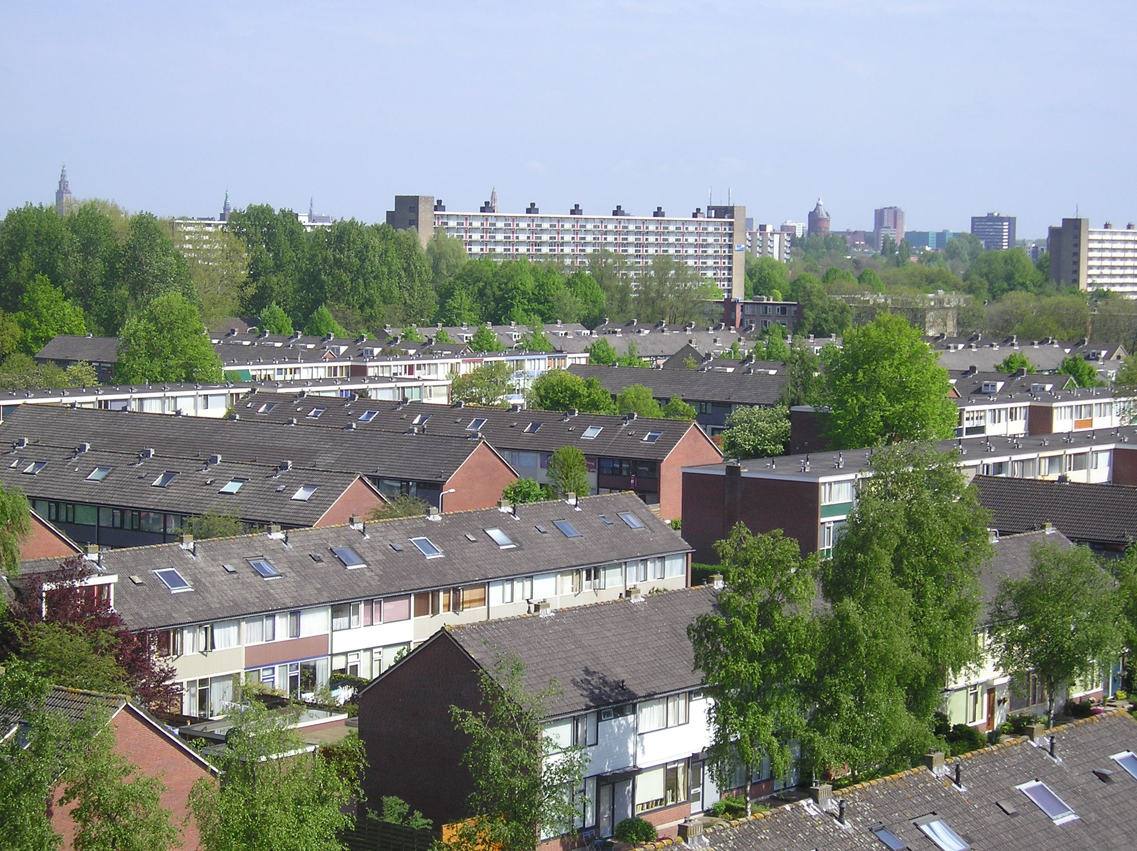 Photo of the Vinkhuizen neighbourhood in Groningen, taken from a flat on the Aquamarijnstraat towards the centre of the city, i.e., the southeast. The Martini tower is on the extreme left. The watertower is to the right of the flats in the centre, then the building of the Groningen Archives and further right the government offices of Social Affairs and Work.